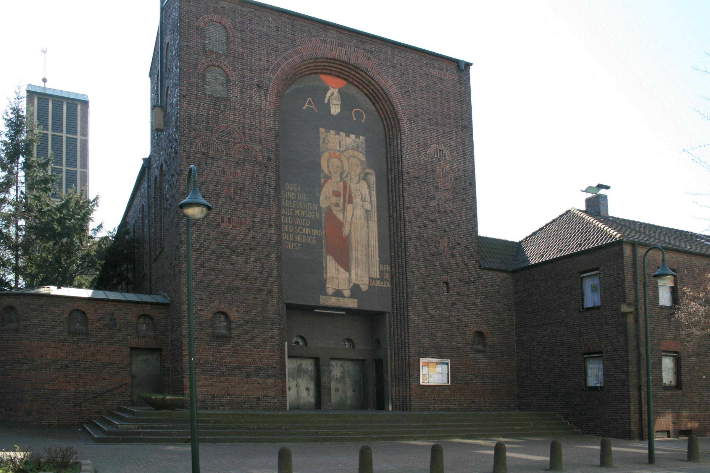 This is a photograph of an architectural monument.